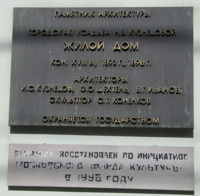 Matvey Sidorovich Kuznetsov - Porcelain King of Russia, lived in this house in 1874 - 1911 (Moscow, Prospekt Mira, 41). Architects: I.S. Kuznetsov, F.O.Schechtel, V.G. Ivanov, sculptor S.T. Konenkov.